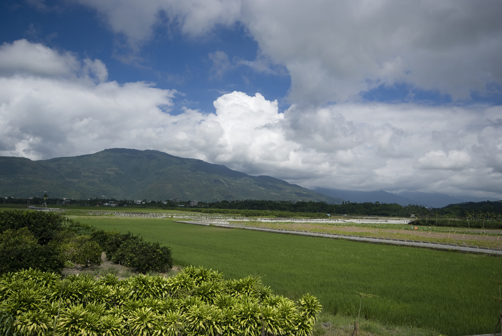 A visit to a dairy farm in Hualien. Spectacular breathtaking views makes me envy of their wonderful world of nature. This is part of the itenenary in "Let's Bike Taiwan 2009" event. Special thanks to the Taiwan Visitors Association (Tourism Bureau) for the "Let's Bike Taiwan 2009" invitation and their excellent hospitality. Not a HDR. Straight from the Fuji S5pro